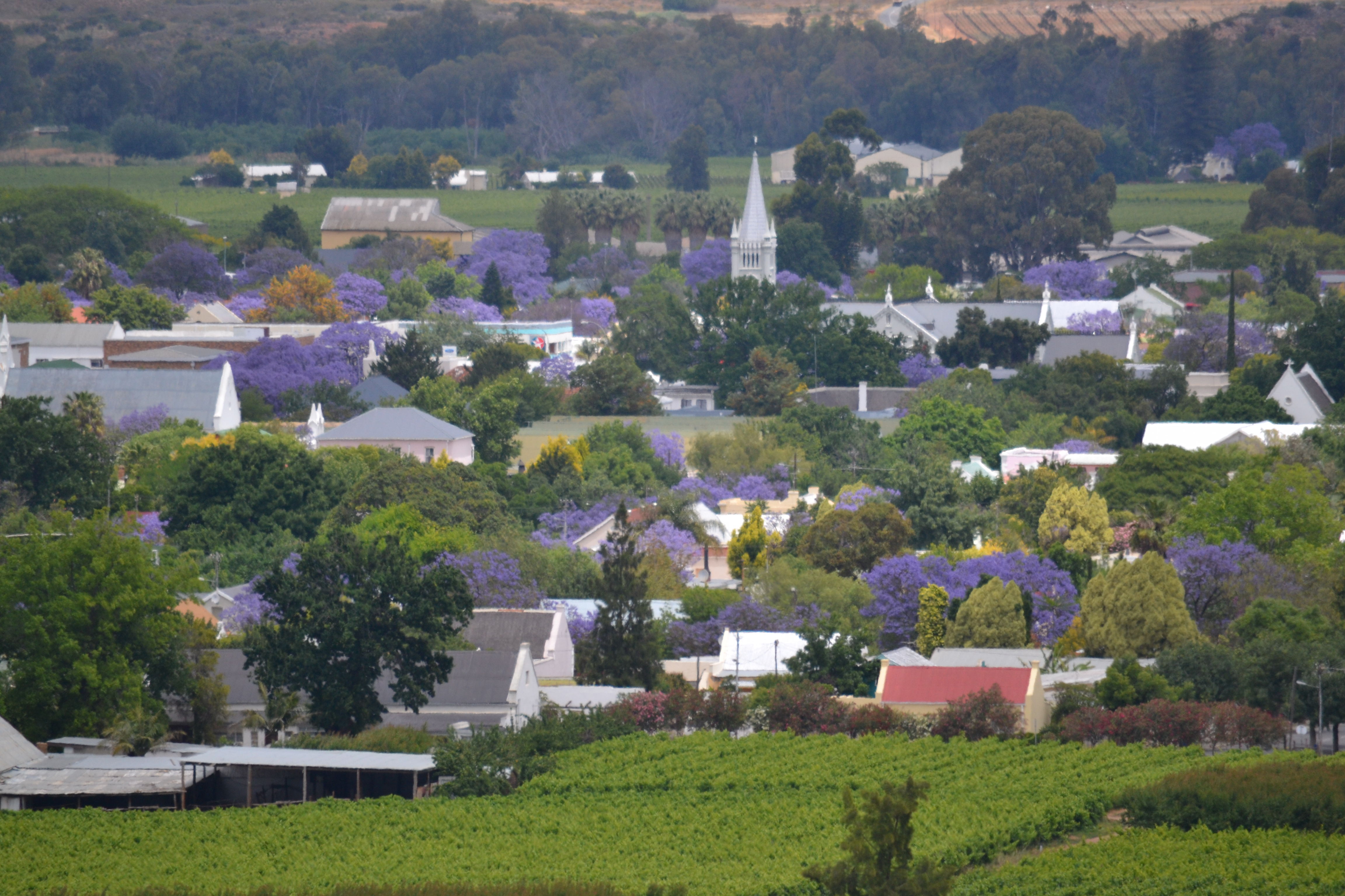 39 Paul Kruger Street, Robertson, Western Cape.